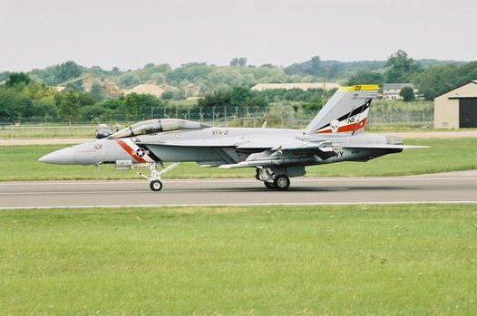 F/A-18F at RIAT 2004